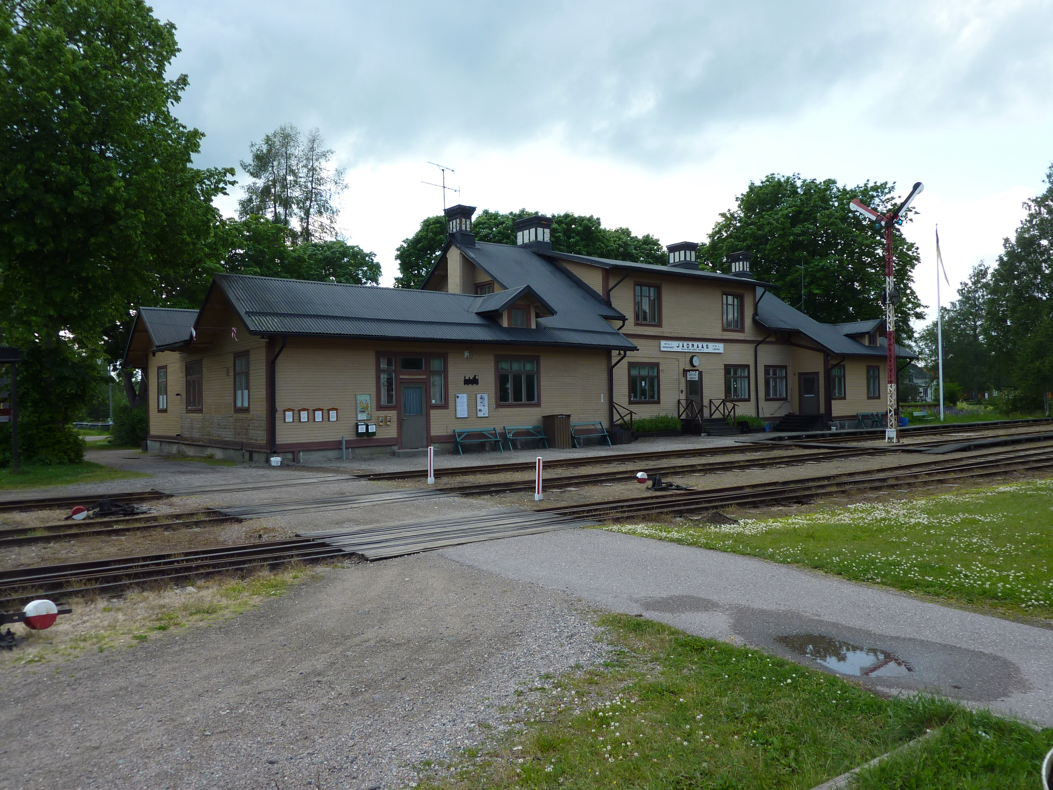 Railway station Jädraås at Jädraås - Tallås museum-railway in Sweden